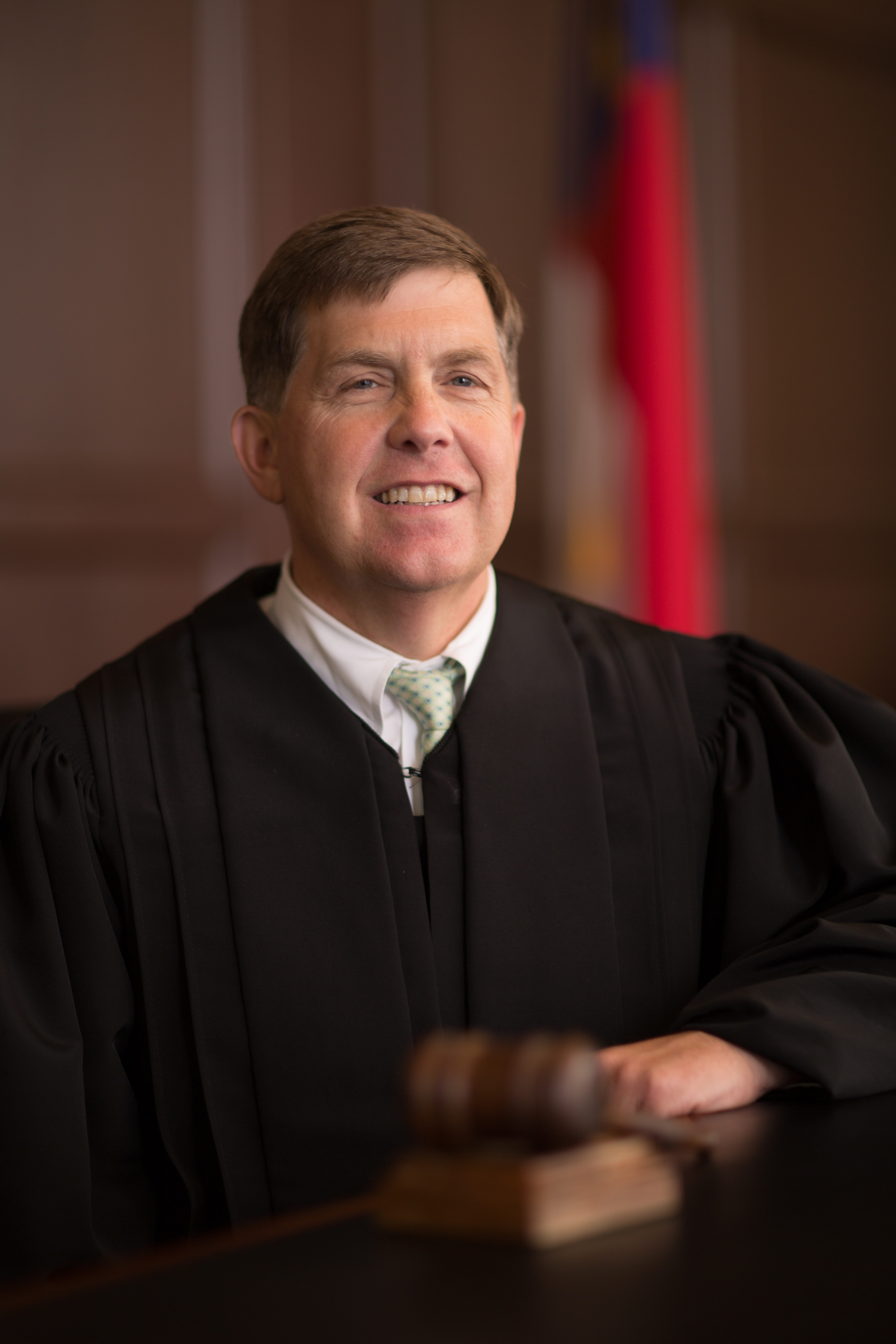 Judge Dillon in judicial robe sitting at the bench in the NC Appeals Court building located in Raleigh, NC.